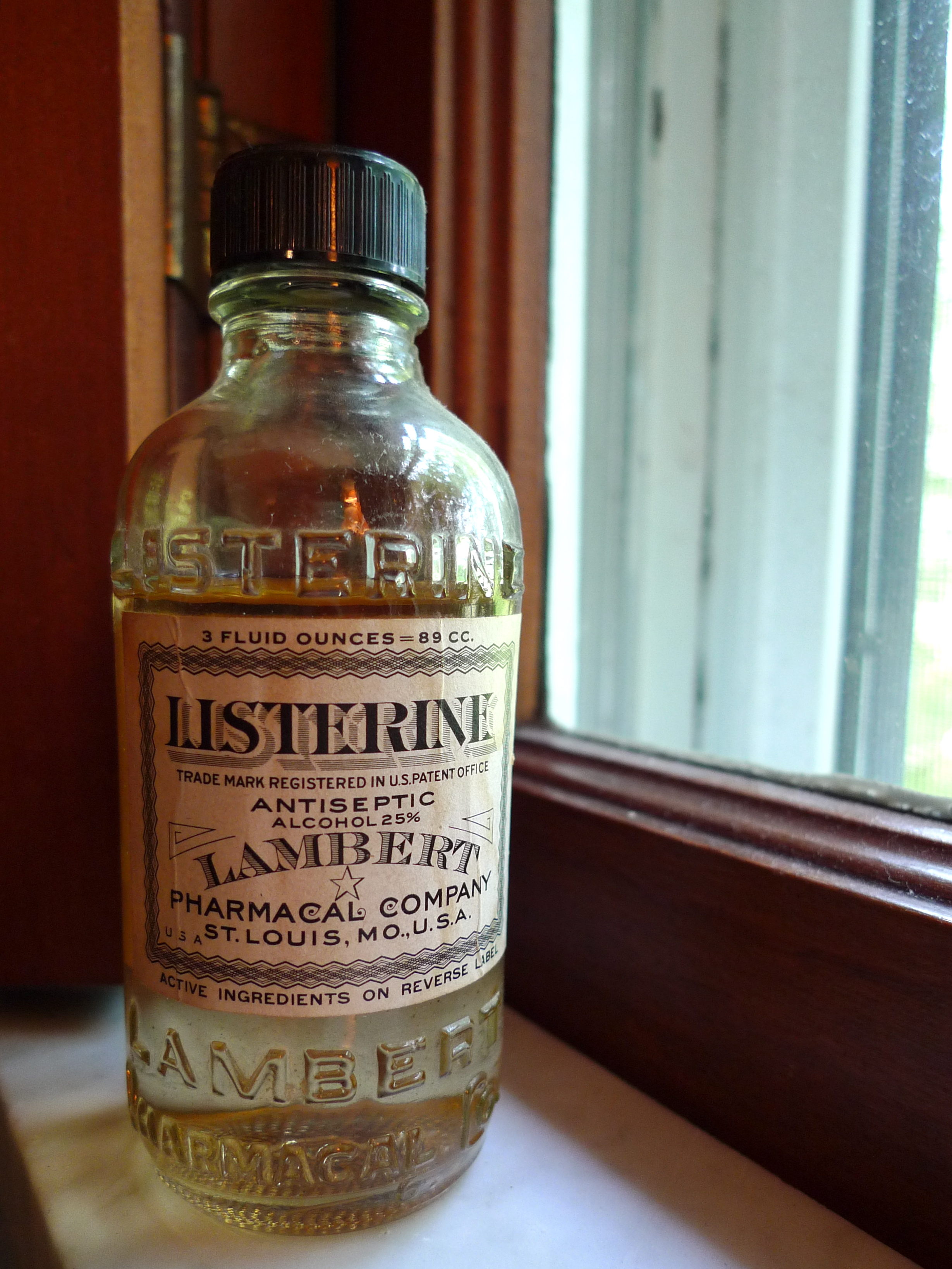 Old Listerine bottle, glass with paper label ("Lambert Pharmacal Company"), unknown date.